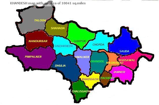 Map of Khandesh